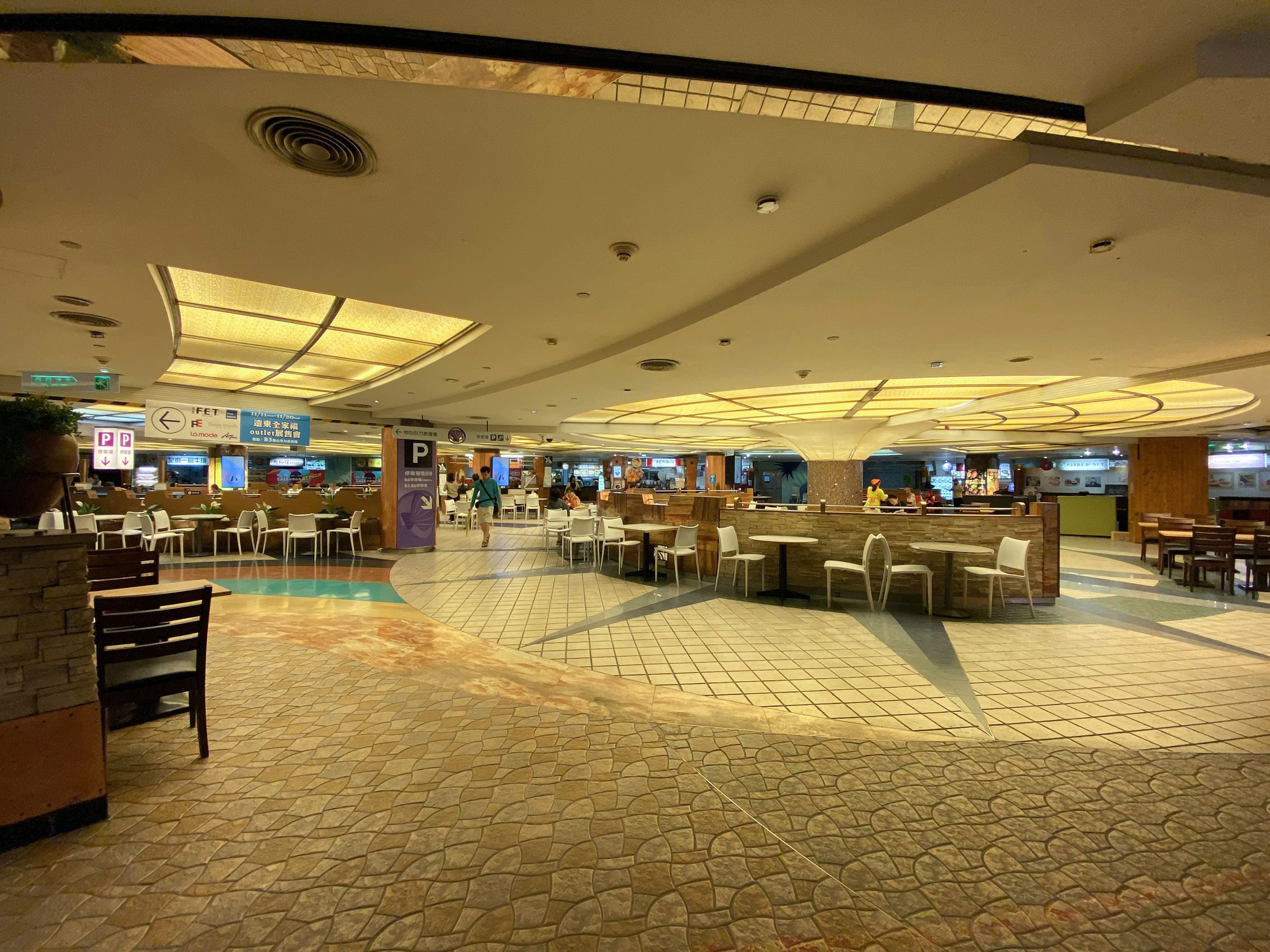 Living Mall B3 Food Court